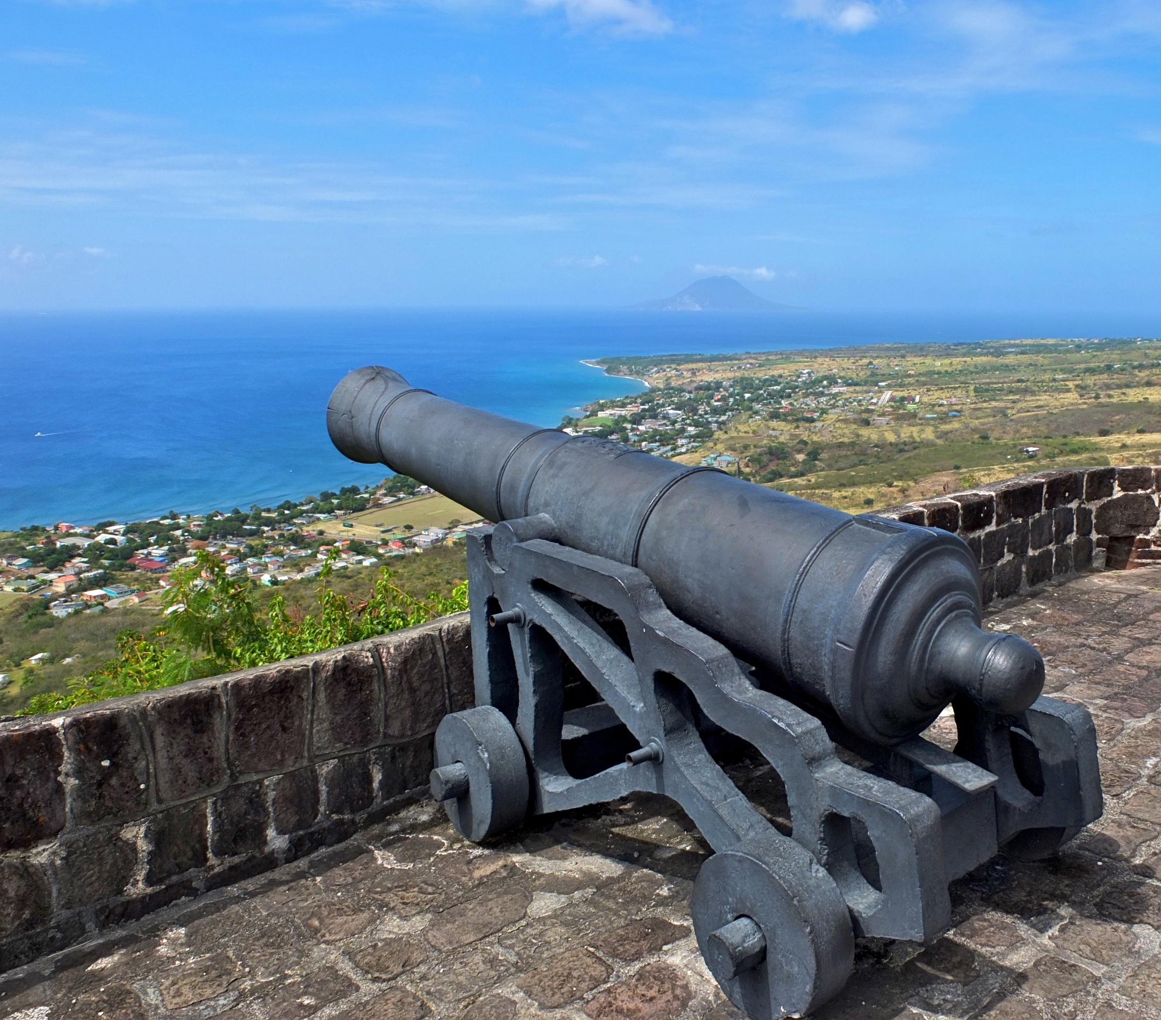 Part of the cannon battery at the Brimstone Hill Fortress on Saint Kitts.